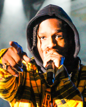 A$AP Rocky in 2013